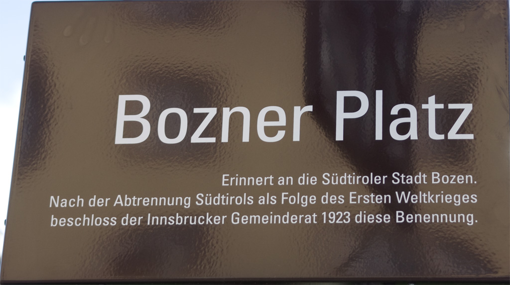 Bozner Straße in Innsbruck, commemorating the separation of the County of Tyrol after World War I